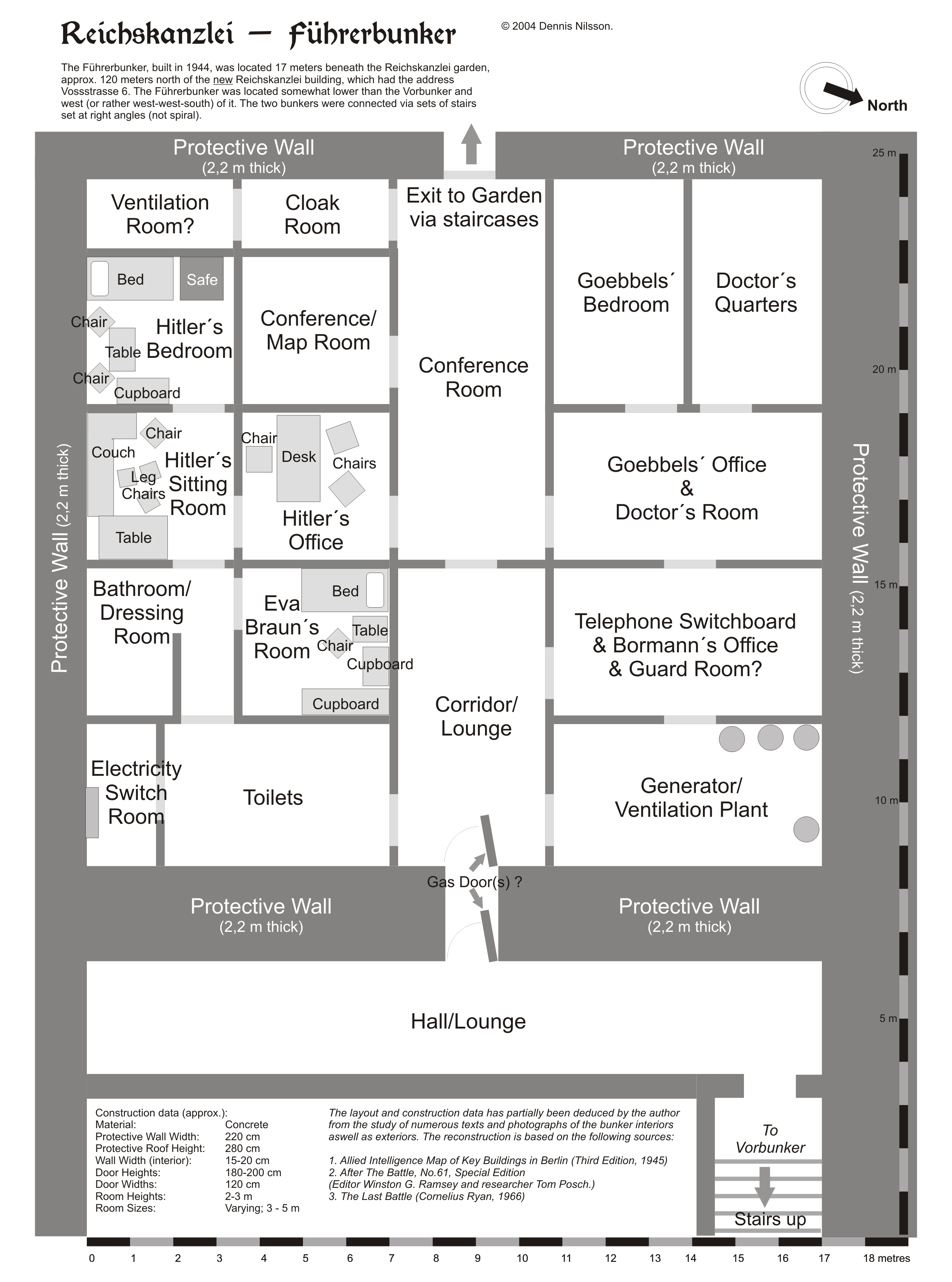 Map of the Fuehrerbunker in Berlin, 1945. For more detailed information, please see below.